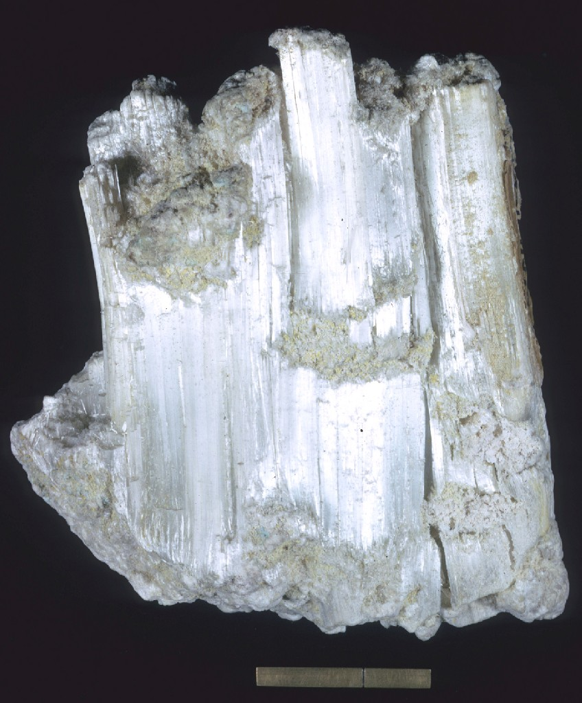 Alunogen - Locality: Almyras, Agia Varvara, Cyprus - Specimen is from the J. L. Bruce collection of the California Institute of Technology, Padadena, California (No. 335). Label said Cyprus mine - Scale at bottom of image is one inch with a rule at one cm.